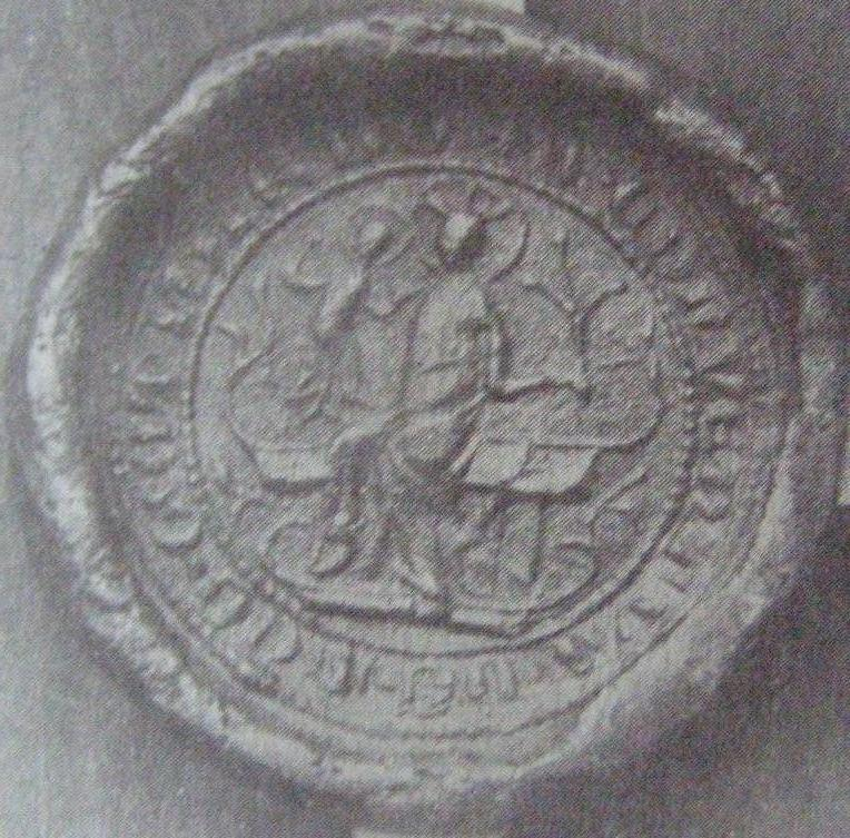 The seal of konvent in Szentgotthárd (1489)